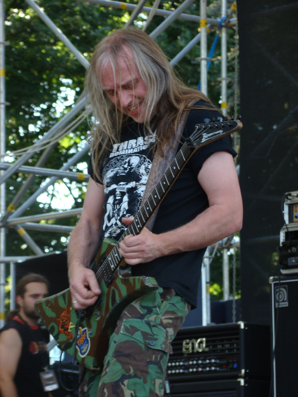 Bernemann of Sodom.